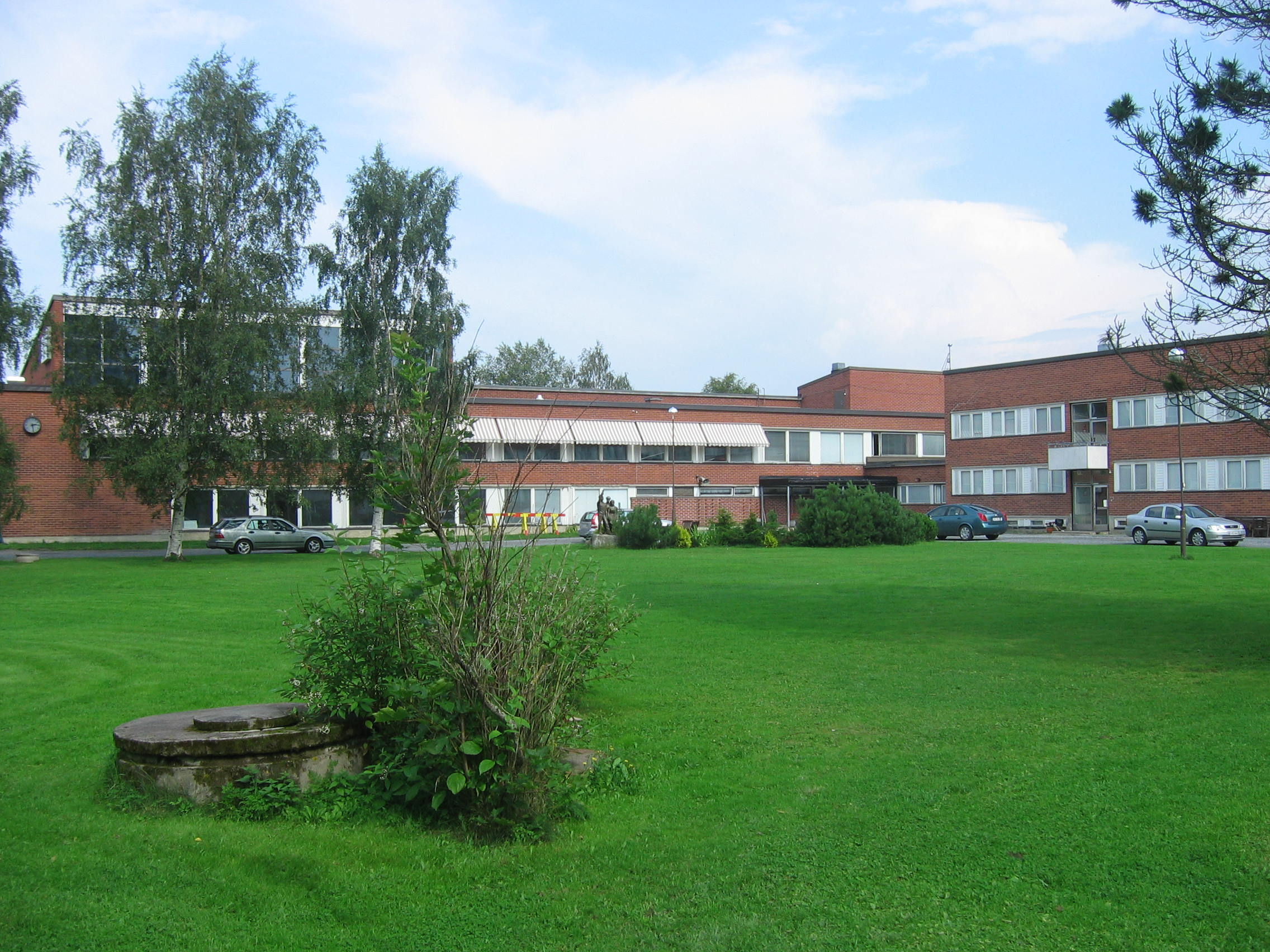 Buildings of the former Swedish Folk High School (Svenska Österbottens folkakademi; SÖFF) in Övermark, Närpes, Finland